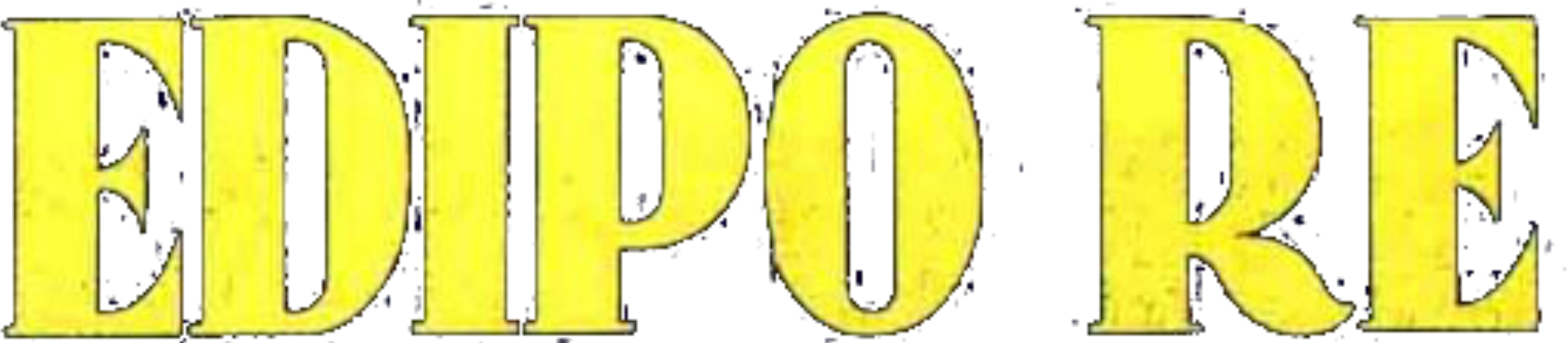 "Edipo re" movie horizontal logo (yellow letters).